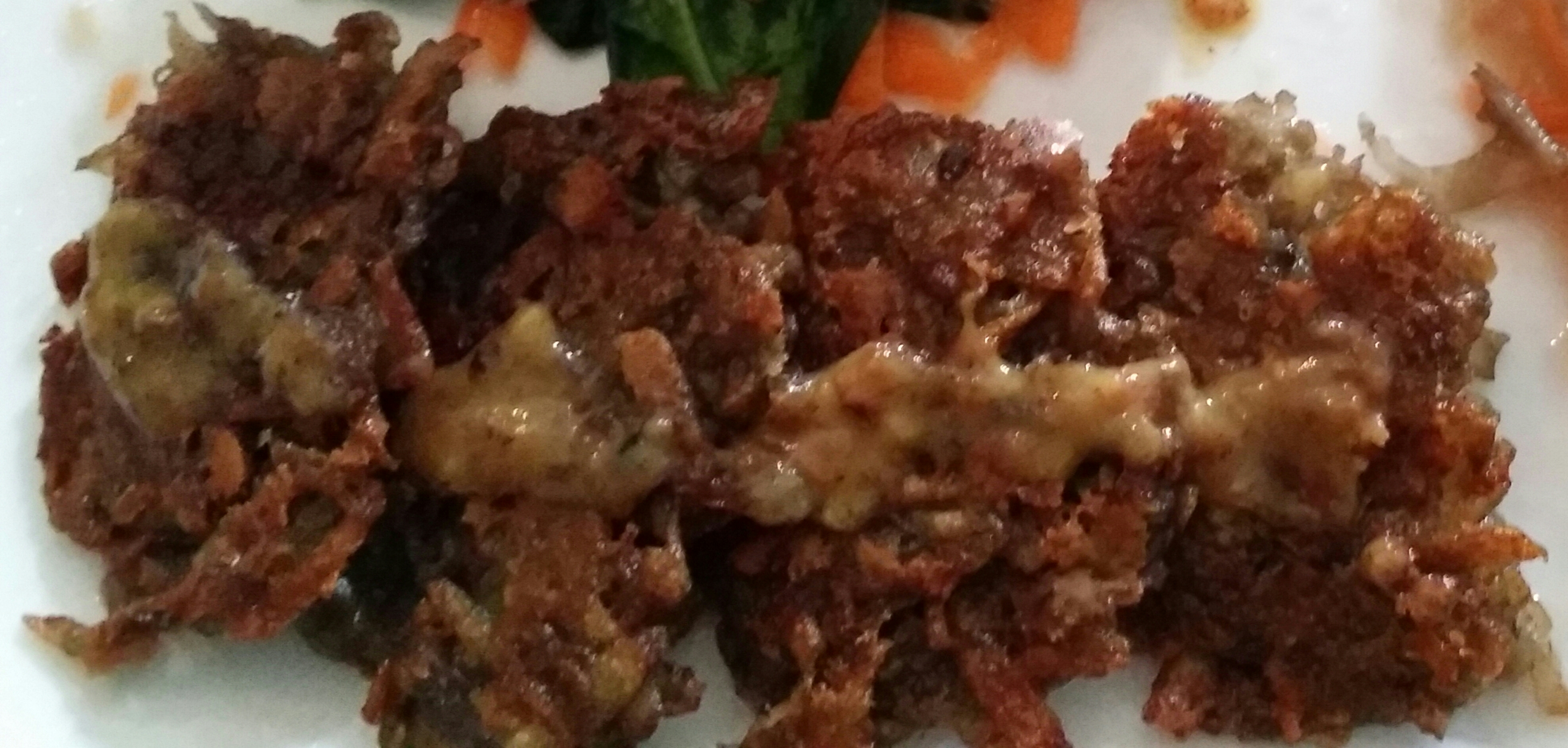 Turkish potato and chesse latke smeared with bigarade schmaltz gravy